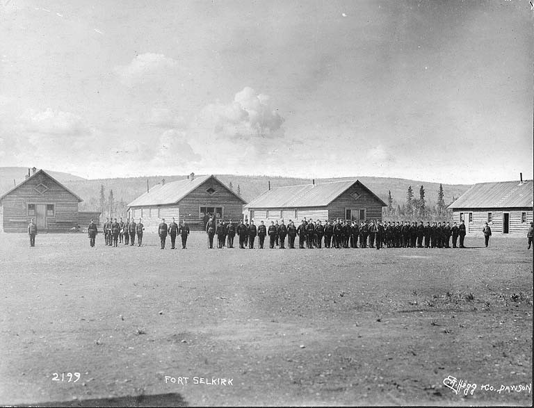 Fort Selkirk became the headquarters of the Yukon Field Force of the Canadian Army in 1898 . Caption on image: "Fort Selkirk"; circulated for publication the same year. Subjects (LCTGM): Forts & fortifications--Yukon Subjects (LCSH): Fort Selkirk (Yukon); Canada. Army--Drill and tactics